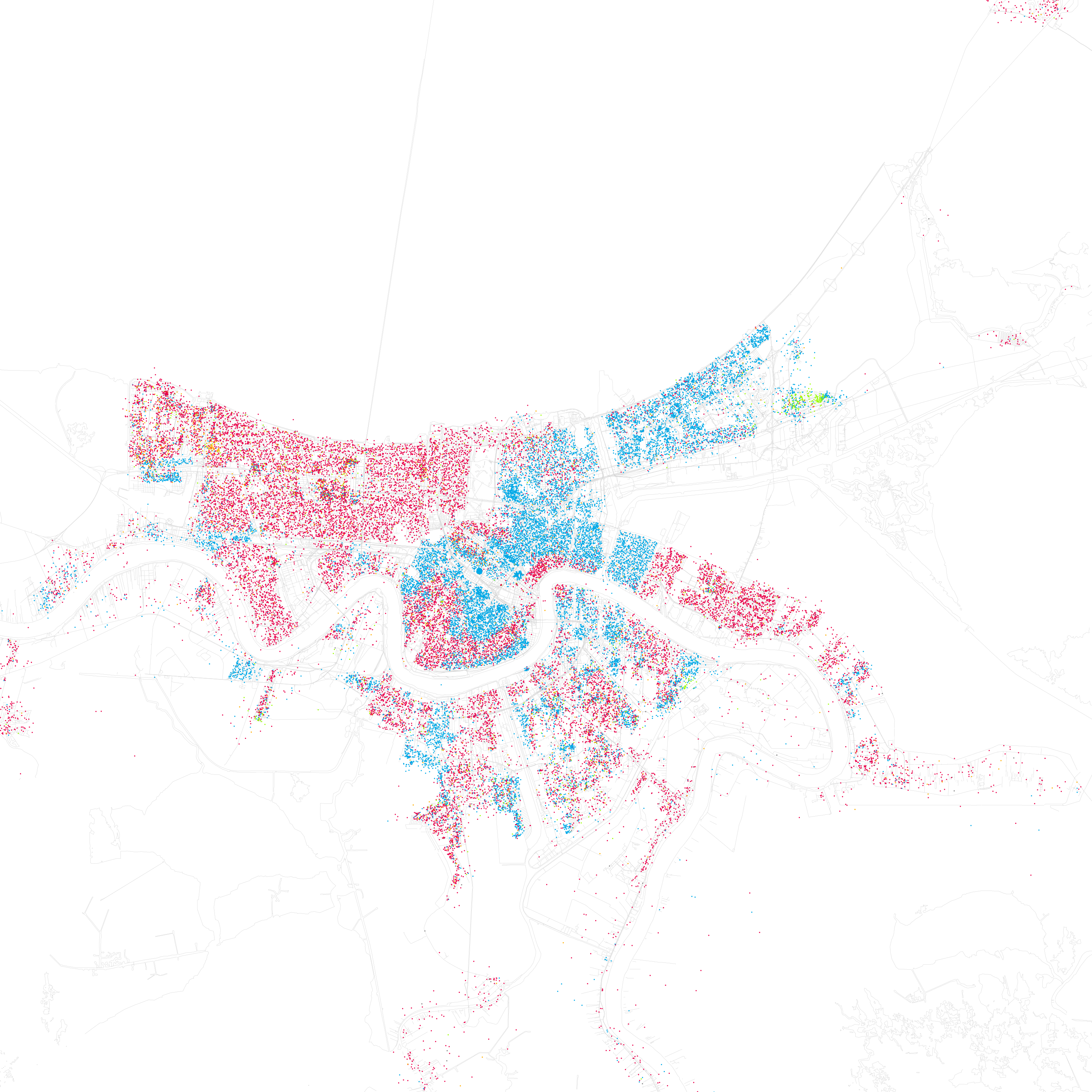 [Eric Fisher] was astounded by Bill Rankin's] map of Chicago's racial and ethnic divides and wanted to see what other cities looked like mapped the same way. To match his map, Red is White, Blue is Black, Green is Asian, Orange is Hispanic, Gray is Other, and each dot is 25 people. Data from Census 2000. Base map © OpenStreetMap, CC-BY-SA